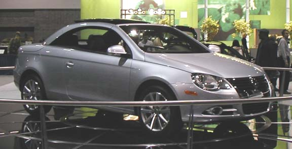 2007 Volkswagen Eos photographed at the Washington, DC auto show.